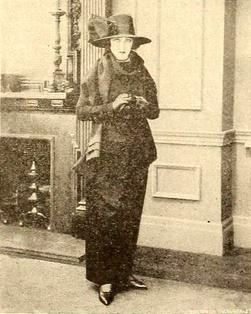 Still from the American film The Fear Woman (1919) with Pauline Frederick, on page 781 of the July 19, 1919 Motion Picture News.